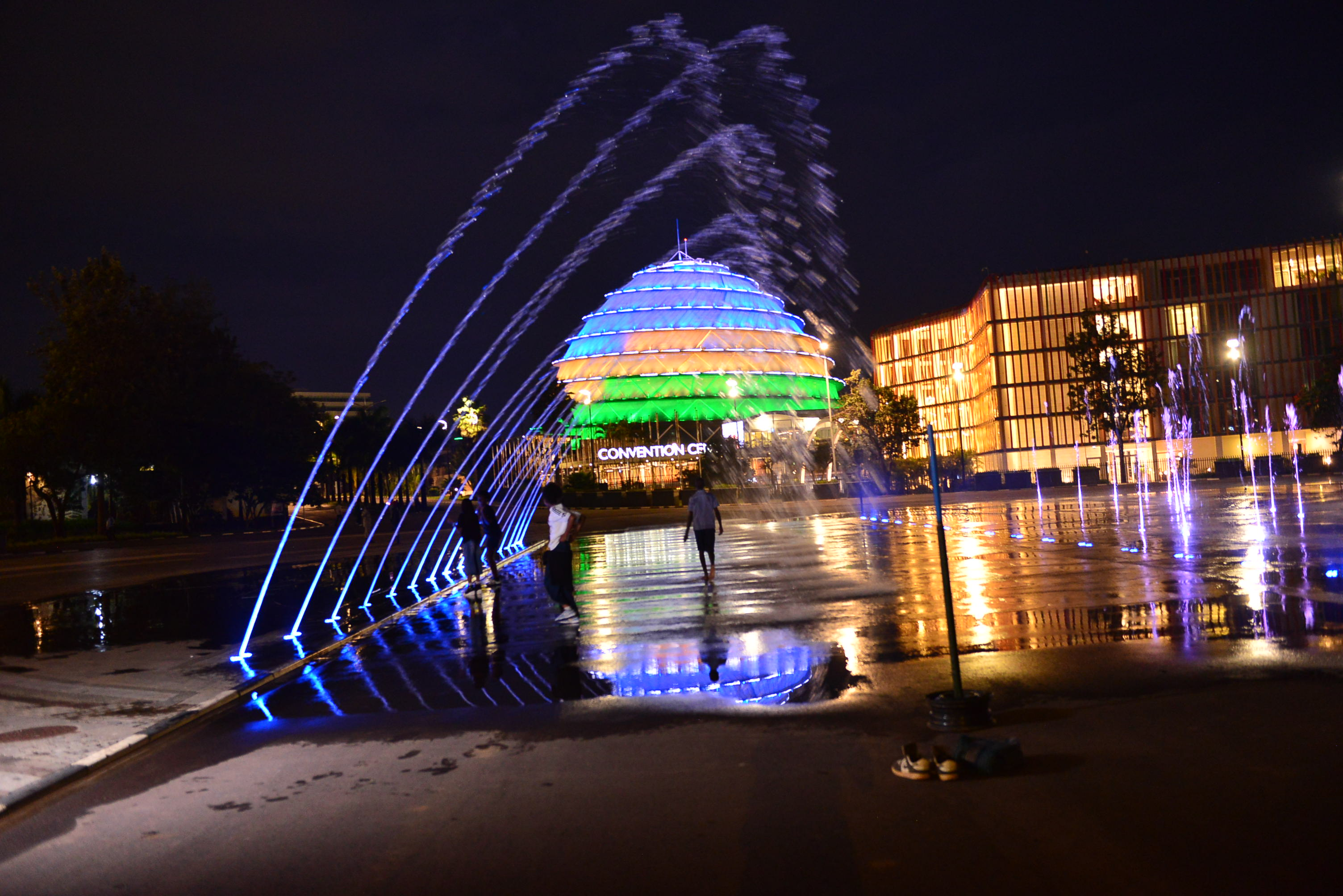 The night view